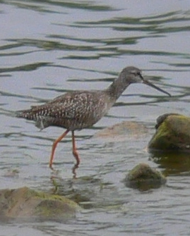 Spotted Redshank